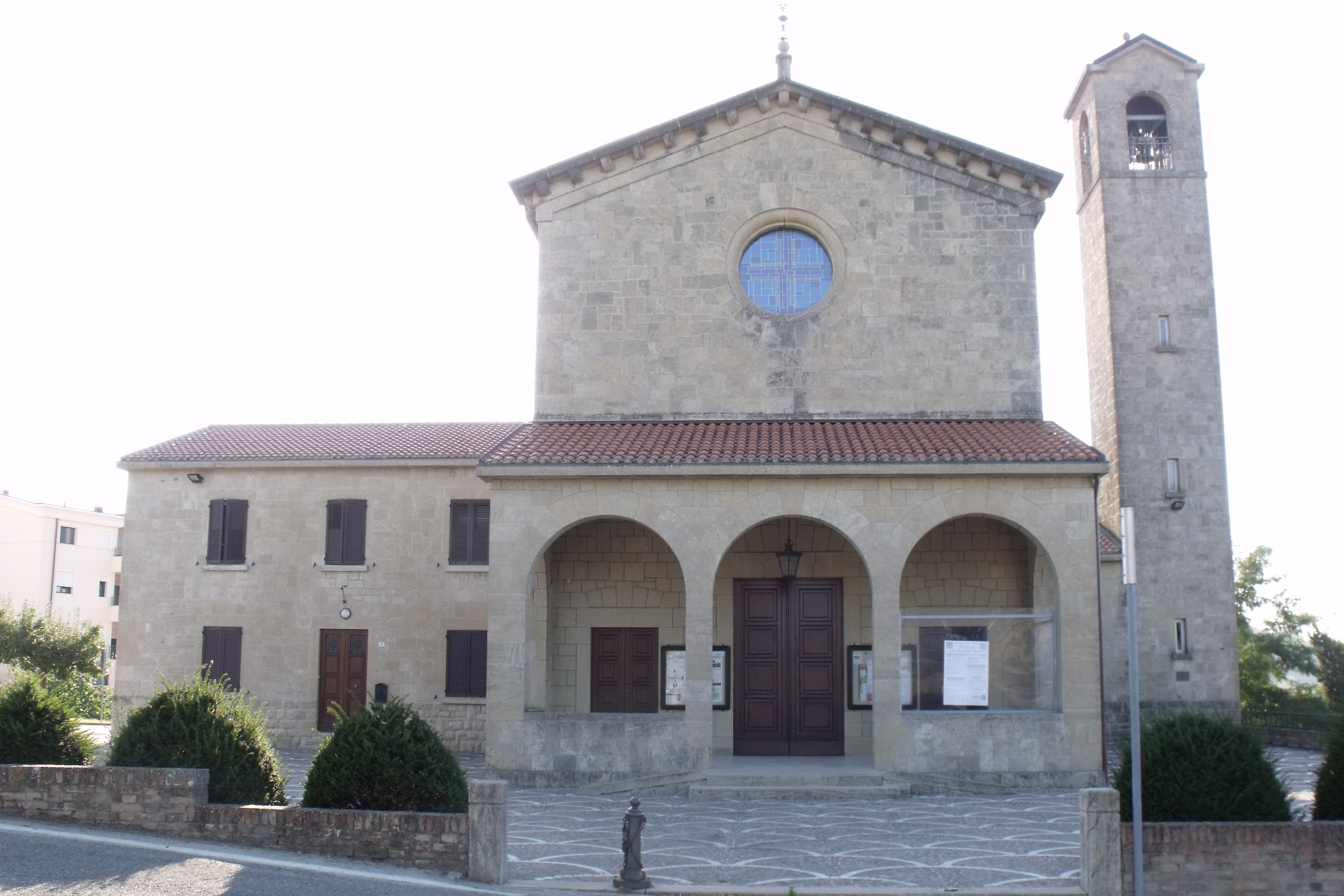 Church in Chiesanuova (San Marino), build by Gino Zani 1961